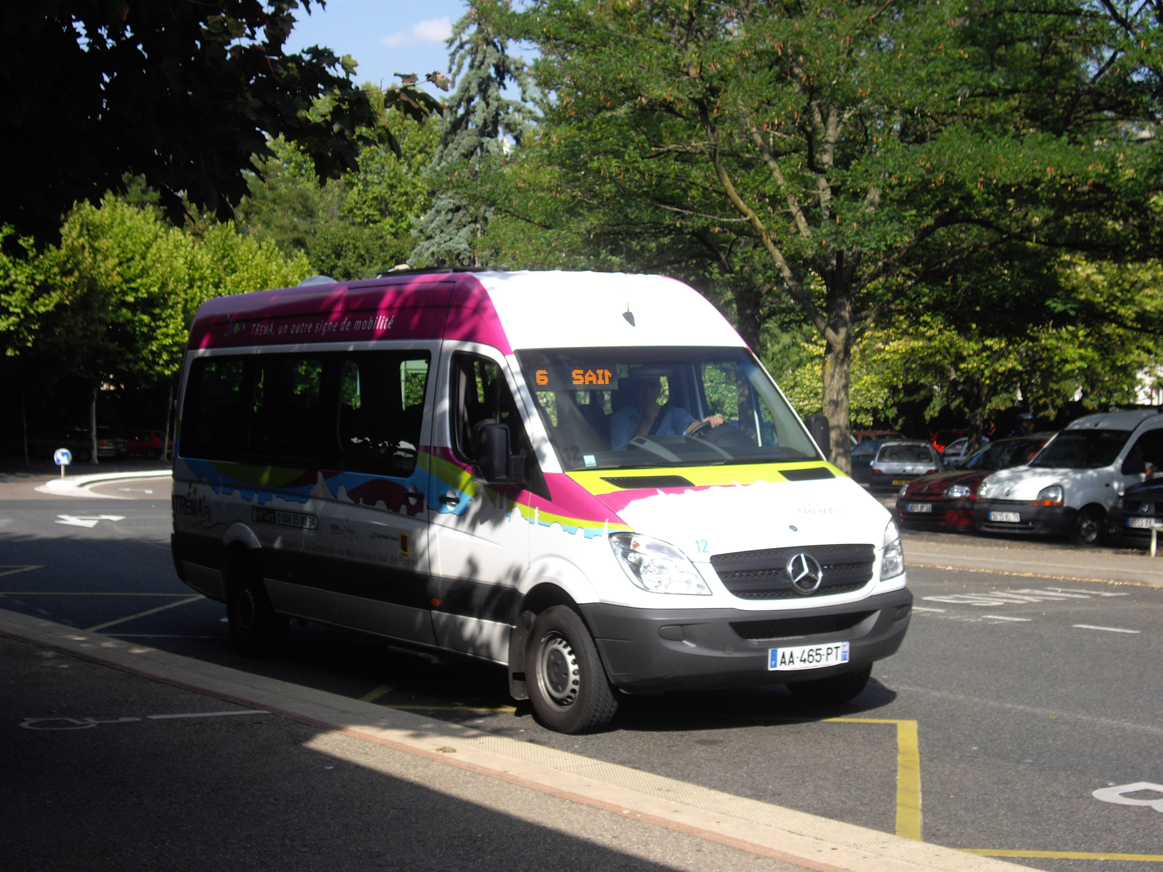 Mercedes-Benz Sprinter bus (#12, reg. AA 465 PT) in Mâcon, France.